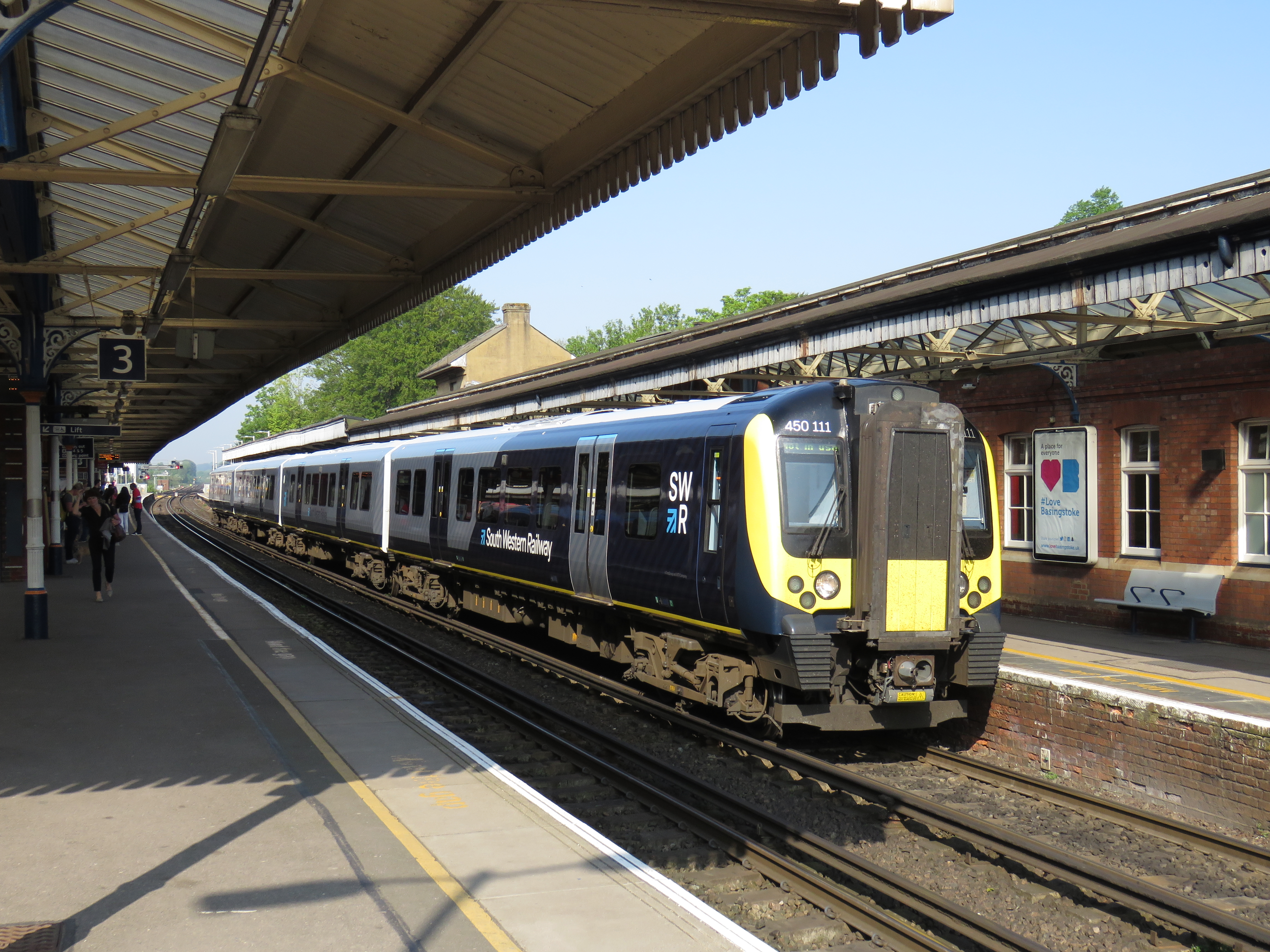 450111 at Basingstoke sunshine whole unit 40163328080